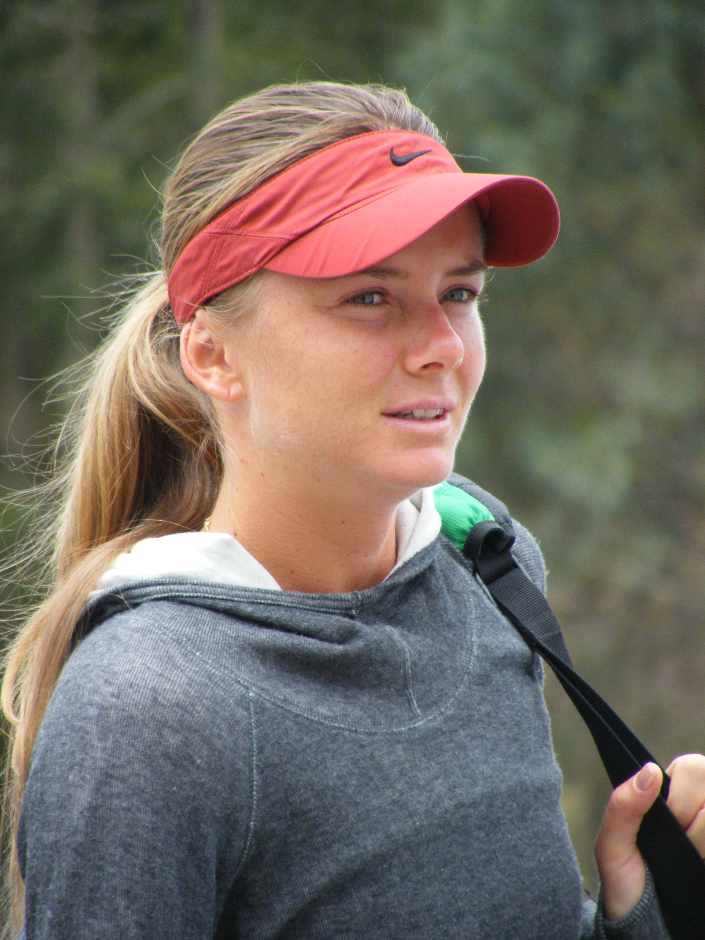 Daniela Hantuchova of Slovakia - NSW Tennis Open, January 2009.